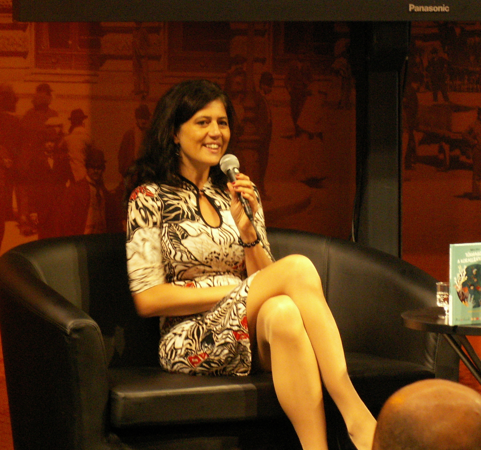 Judit Berg at the Göteborg Book Fair.